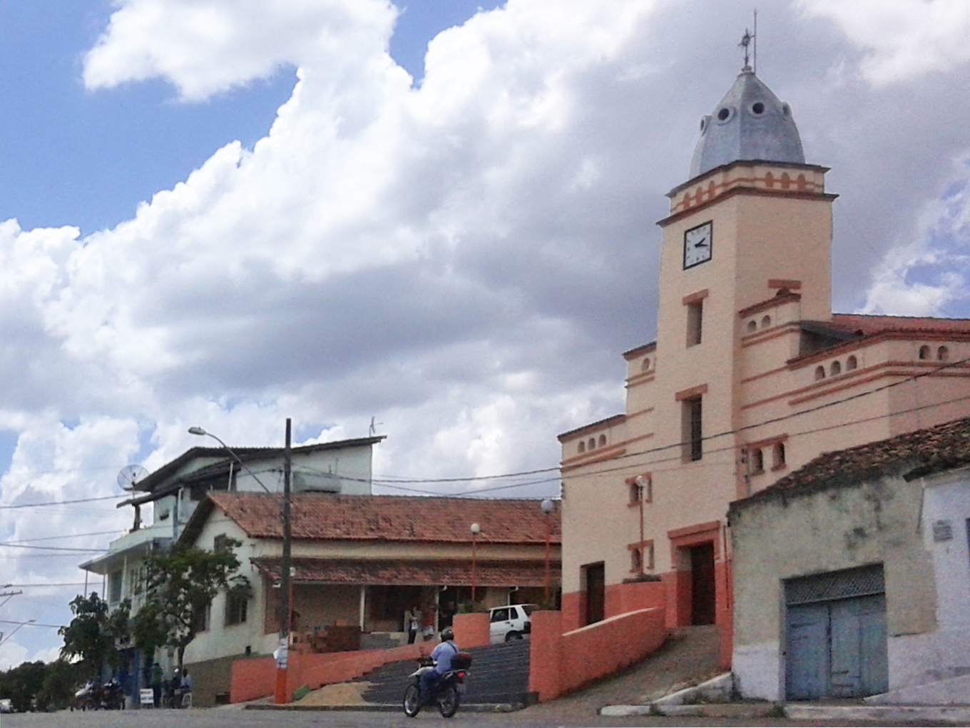 Partial view of the Saint Sebastian Mother Church, in Carlos Chagas, Minas Gerais, Brazil.